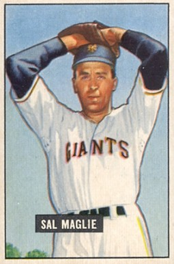 Card #127 of Sal Maglie with the New York Giants from the 1951 Bowman set.